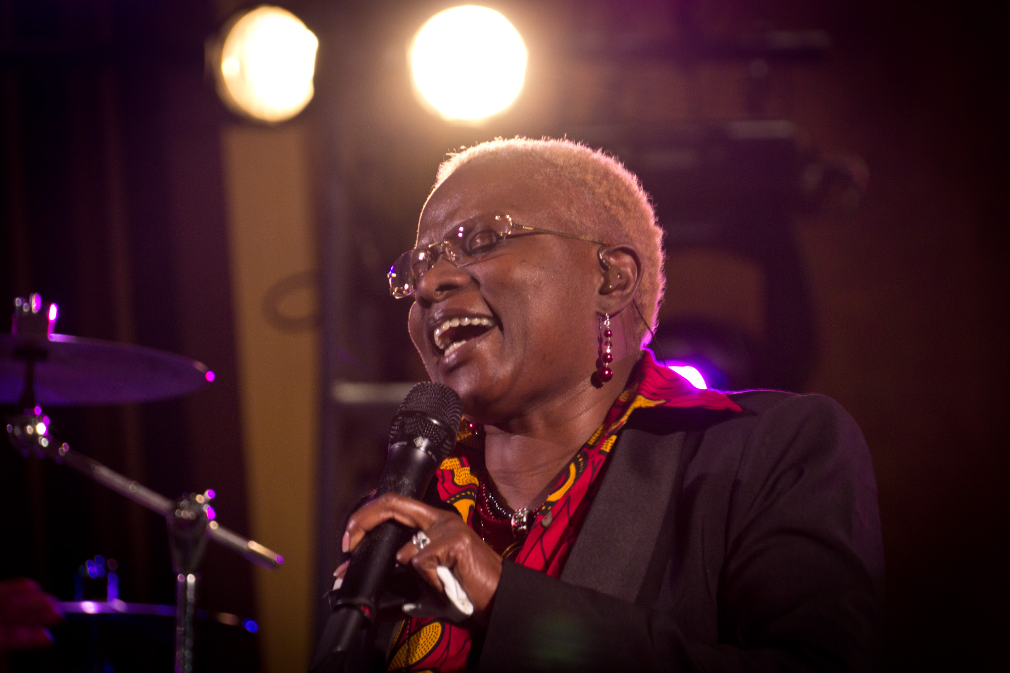 UNICEF Goodwill Ambassador Angelique Kidjo performs during a sound check at the United Nations, New York, for the “Raise Your Voice to end Female Genital Mutilation” concert, 28 February, 2012.